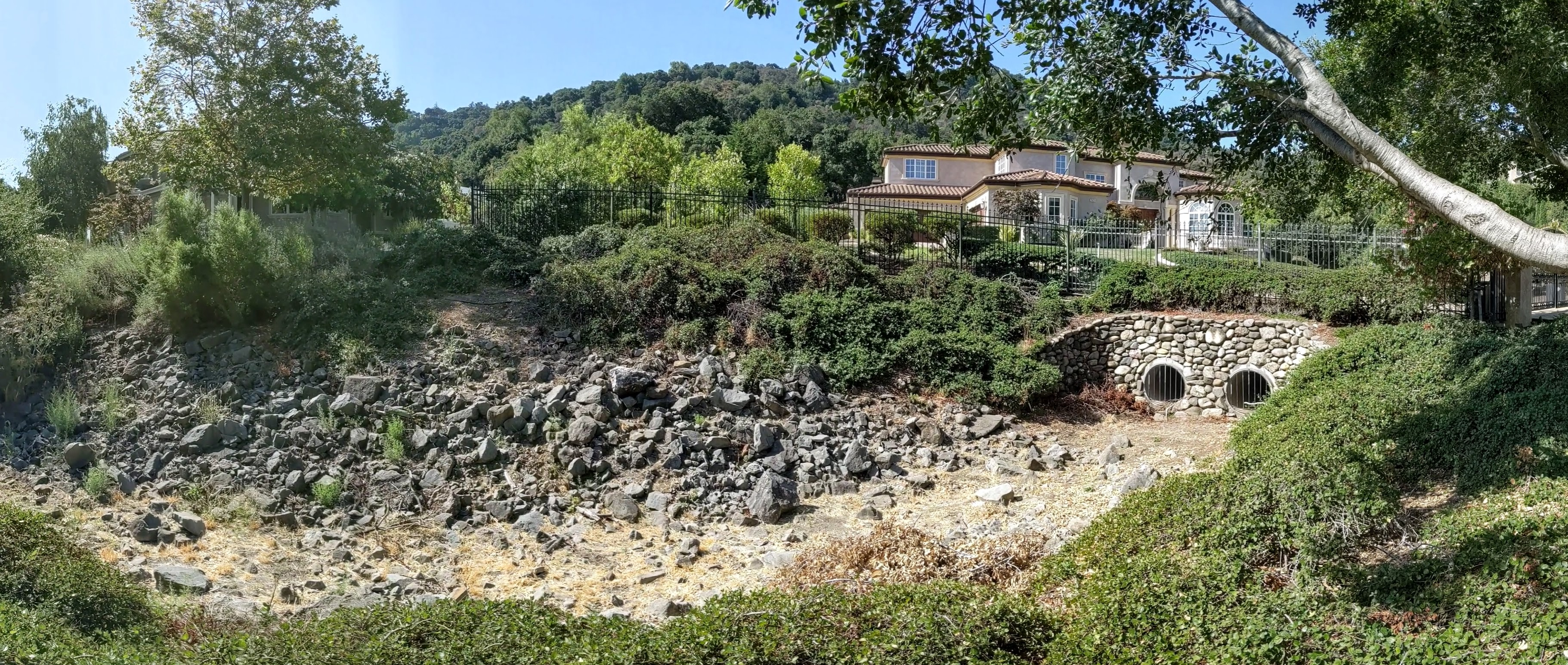 Hale Creek's source canyon just above Neary Quarry in Los Altos Hills, California, where the creek traverses several luxury home properties in the canyon